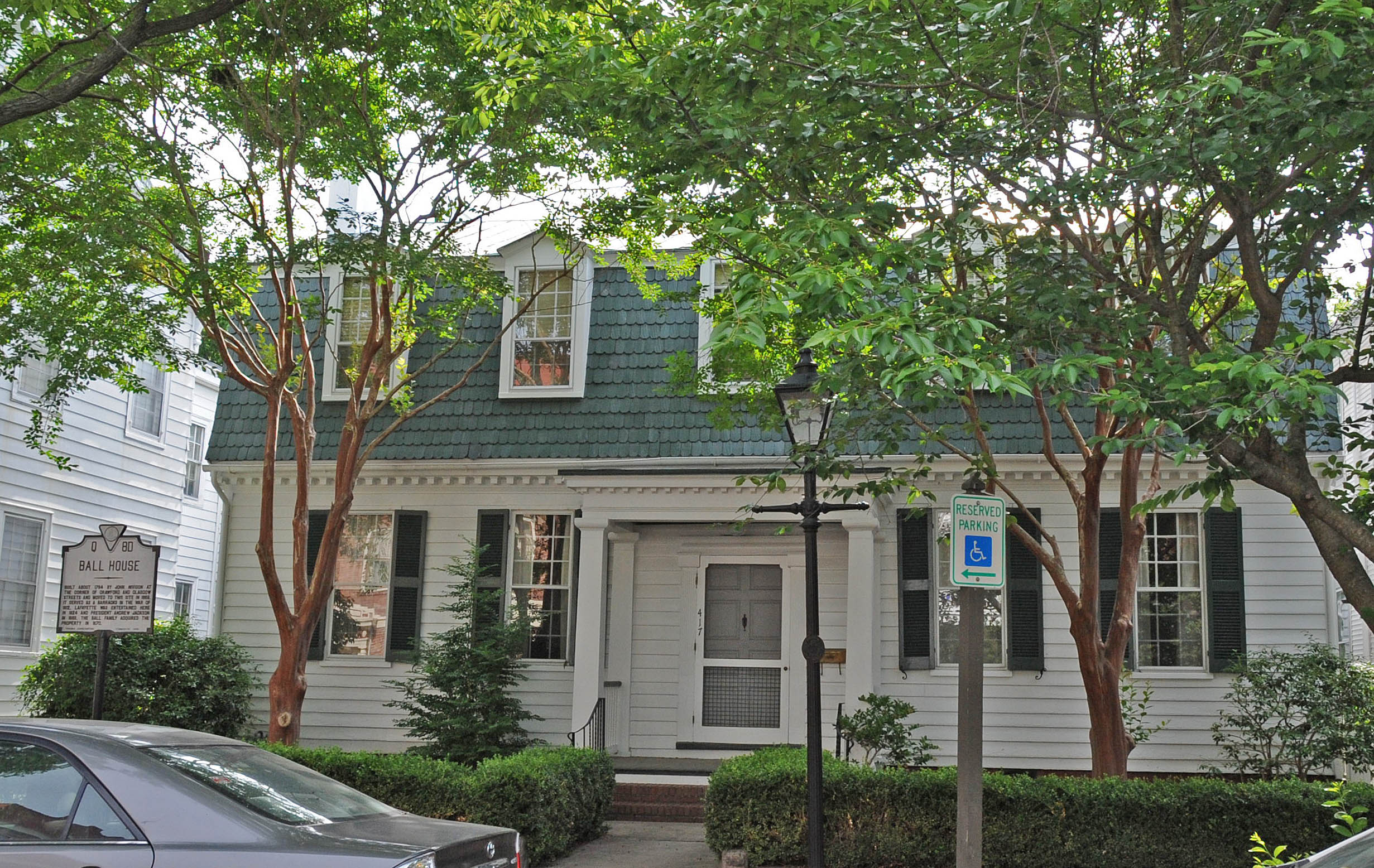 BALL HOUSE - BUILT CIRCA 1784. IT USED AS A BARRACKS DURING THE WAR OF 1812. LAFAYETTE WAS ENTERTAINED HERE IN 1824 AND PRESIDENT ANDREW JACKSON IN 1833